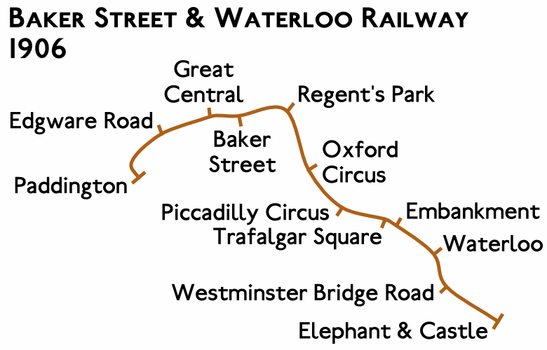 Geographic Map of the Baker Street & Waterloo Railway, 1906.